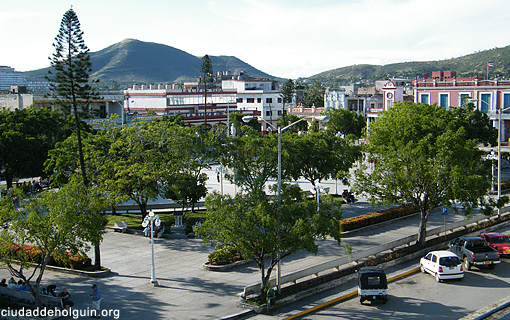 Parque Calixto Garcia Holguín